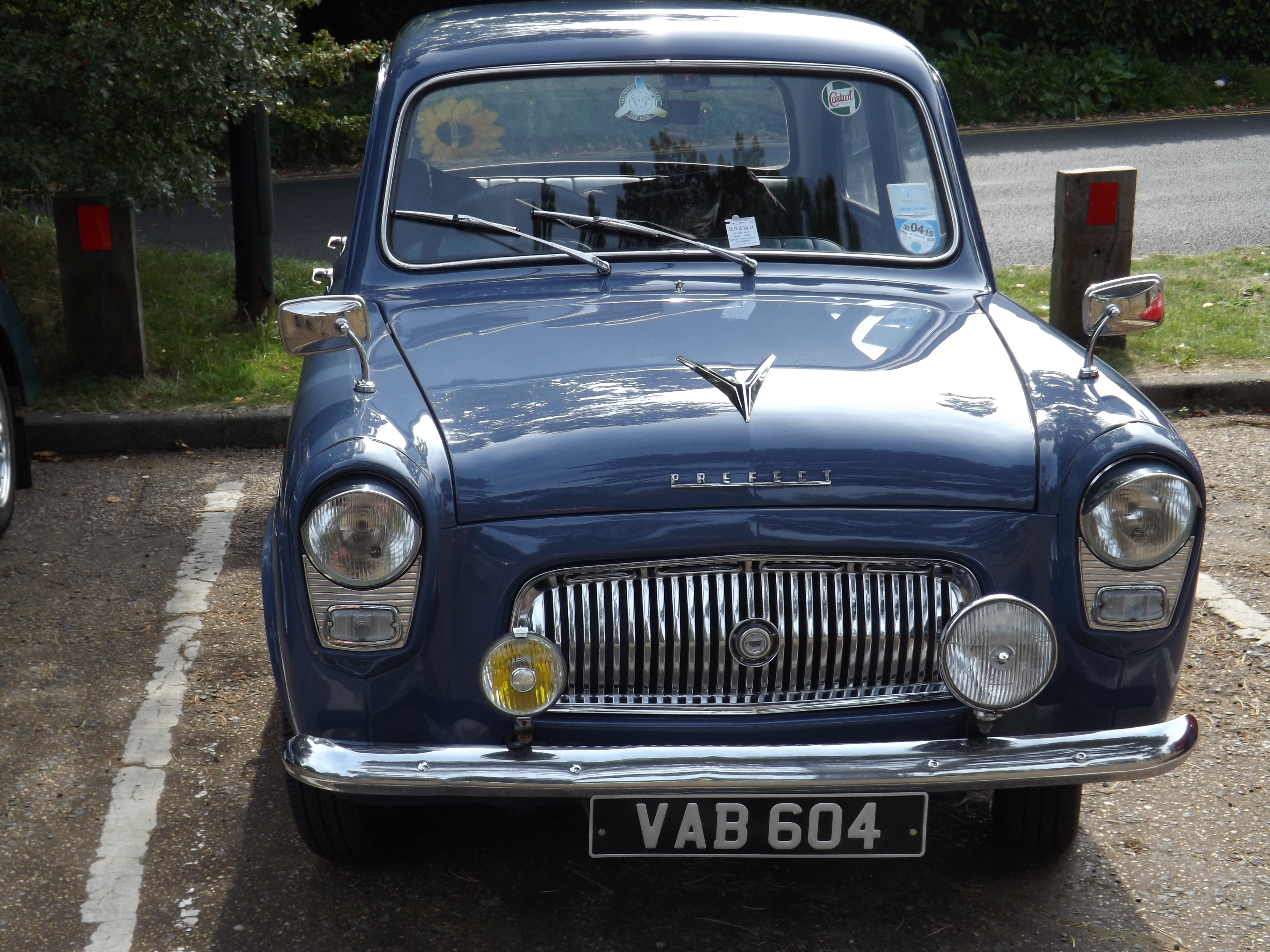 Ford Prefect 100E c.1955-6